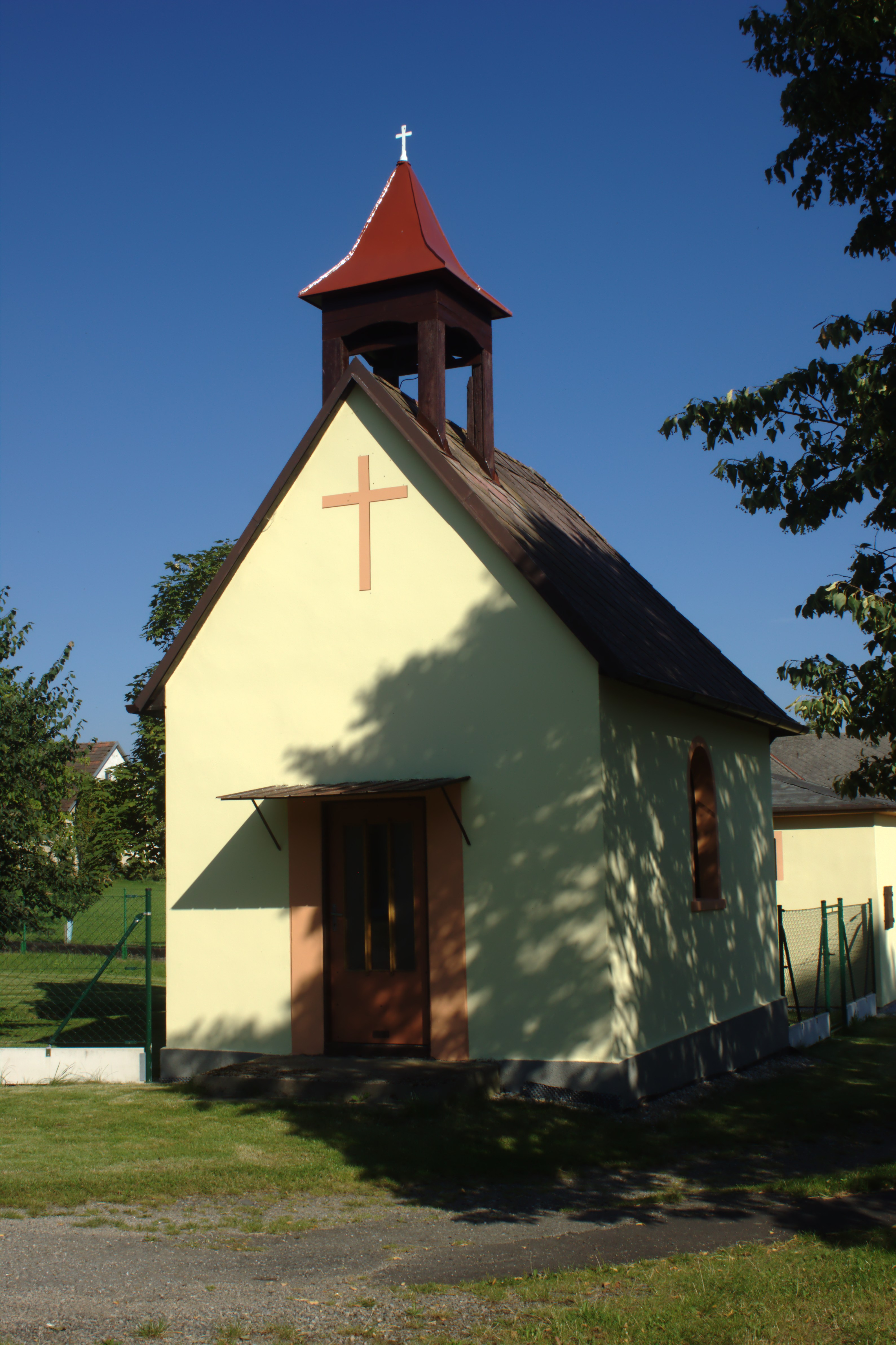 A chapel in the village of Řísnice, Central Bohemia, CZ